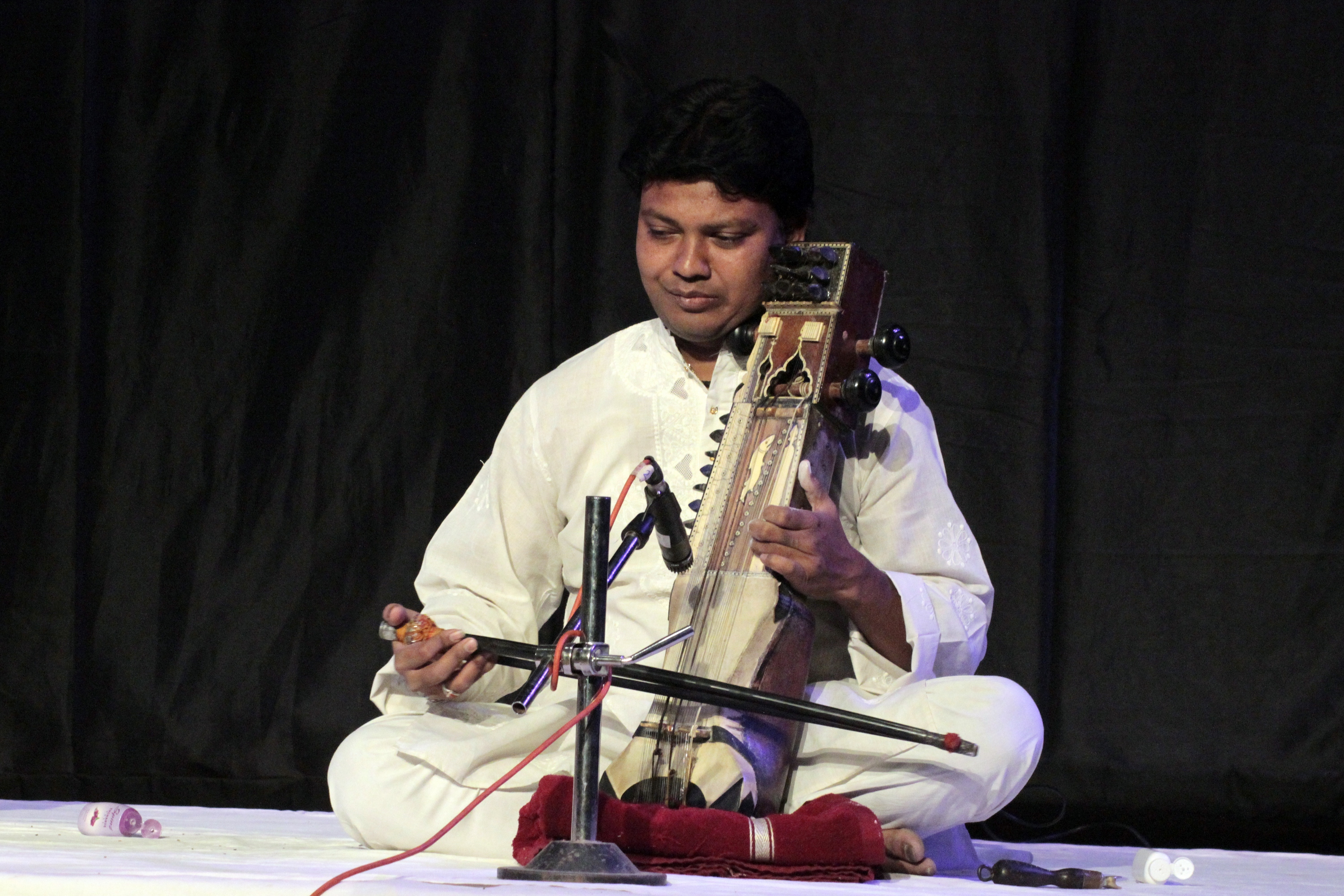 Sarngi Player in India